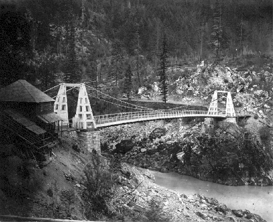 Photograph of the Alexandra Bridge, on the Fraser River, thirteen miles above Yale, British Columbia